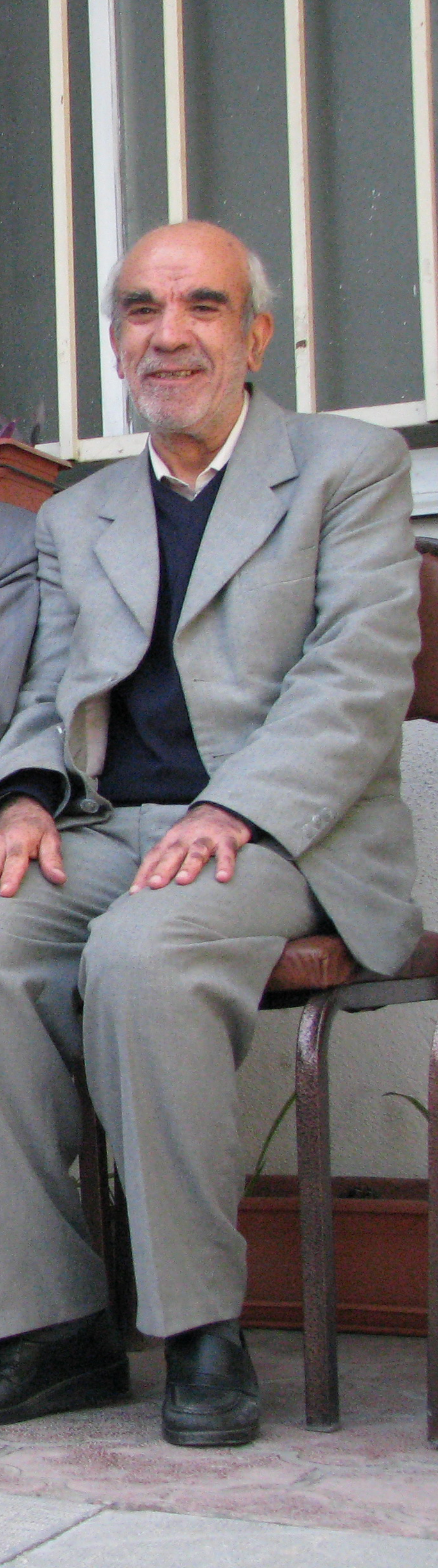 Islamic Azad University - Tehran North Branch